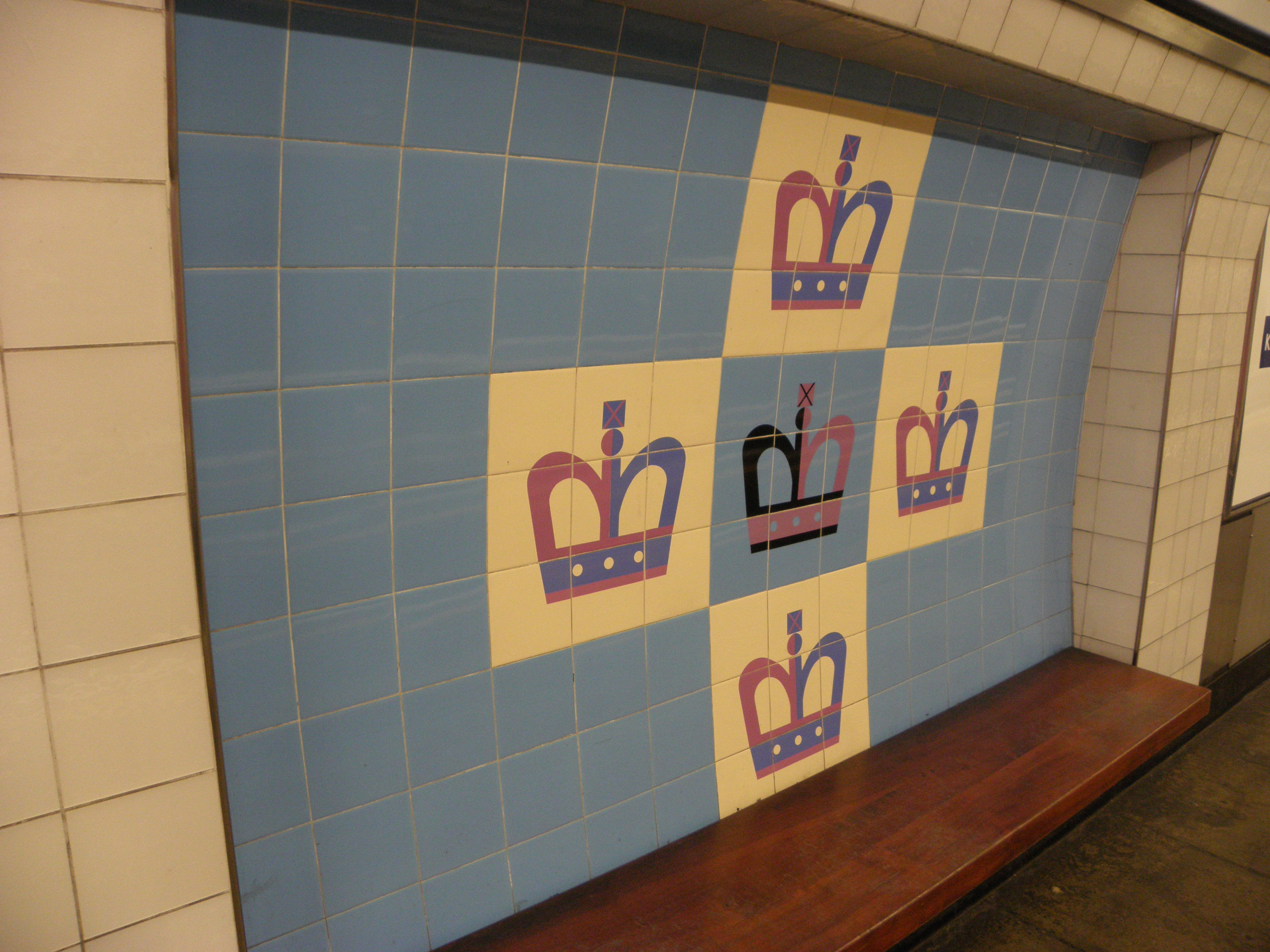 King's Cross St. Pancras tube station Victoria line platform motif - Five crowns by Tom Eckersley.